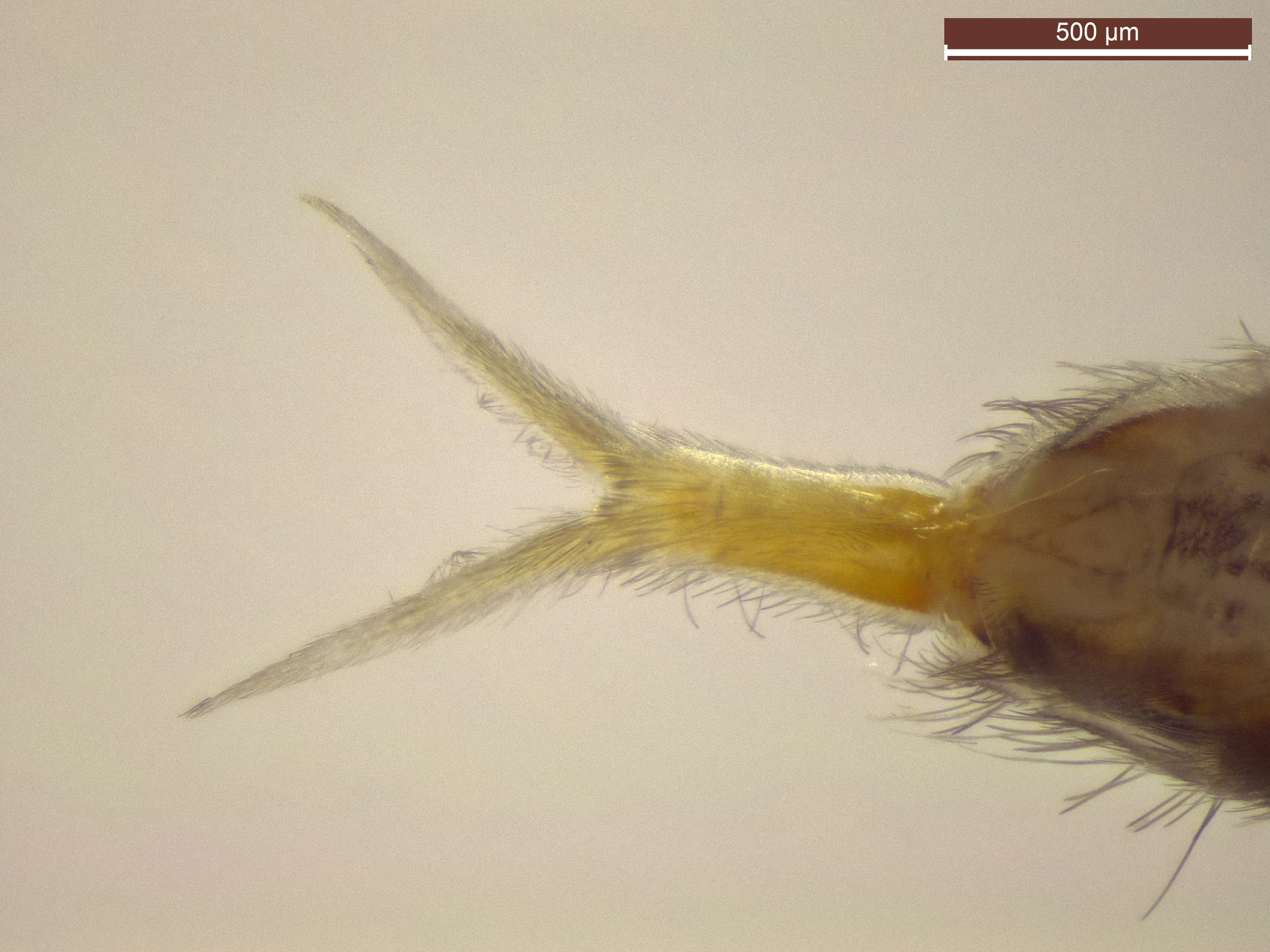 Extracted from beech leaf litter using Berlese funnel, Gribskov near Kagerup, Denmark, 27-29 January 2018